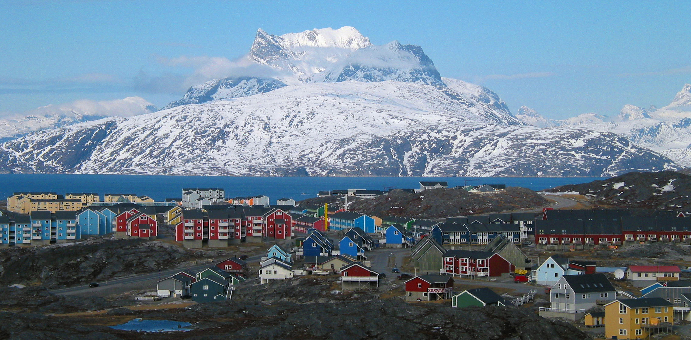 Nuussuaq district in Nuuk, the capital of Greenland, with the Sermitsiaq mountain in background